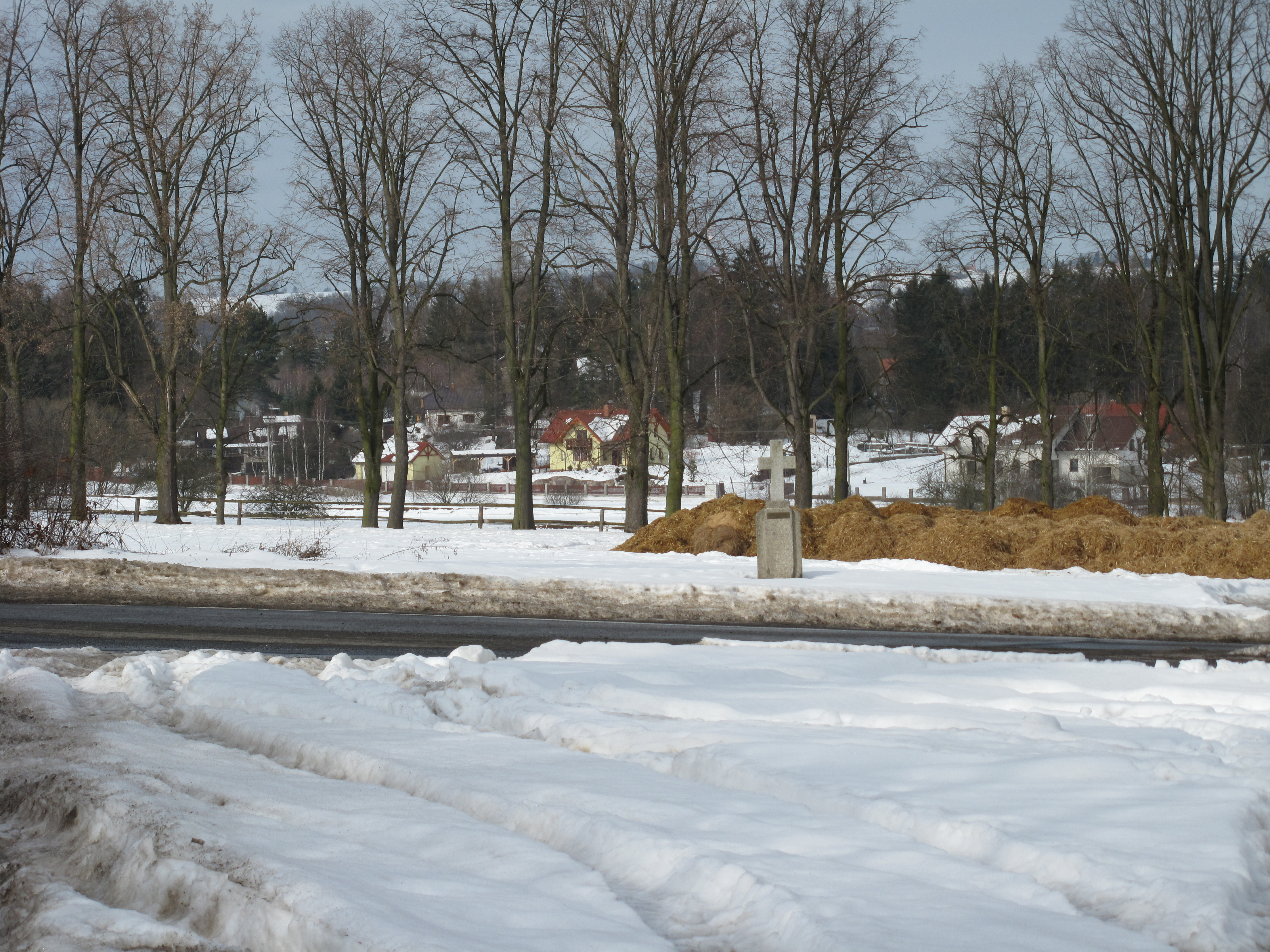 Skuheř village (Kamenice), Prague-East District, Czech Republic.